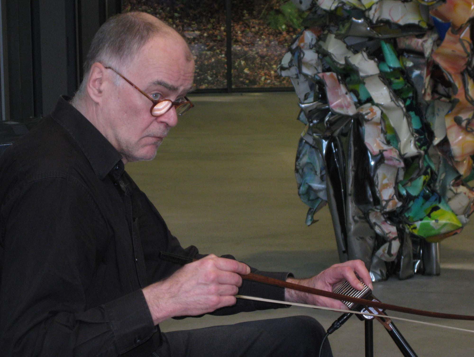 Hans Reichel in concert at KlangArt Wuppertal (in Tony Cragg's 'Skulpturenpark'), Germany, Sept 9th, 2009